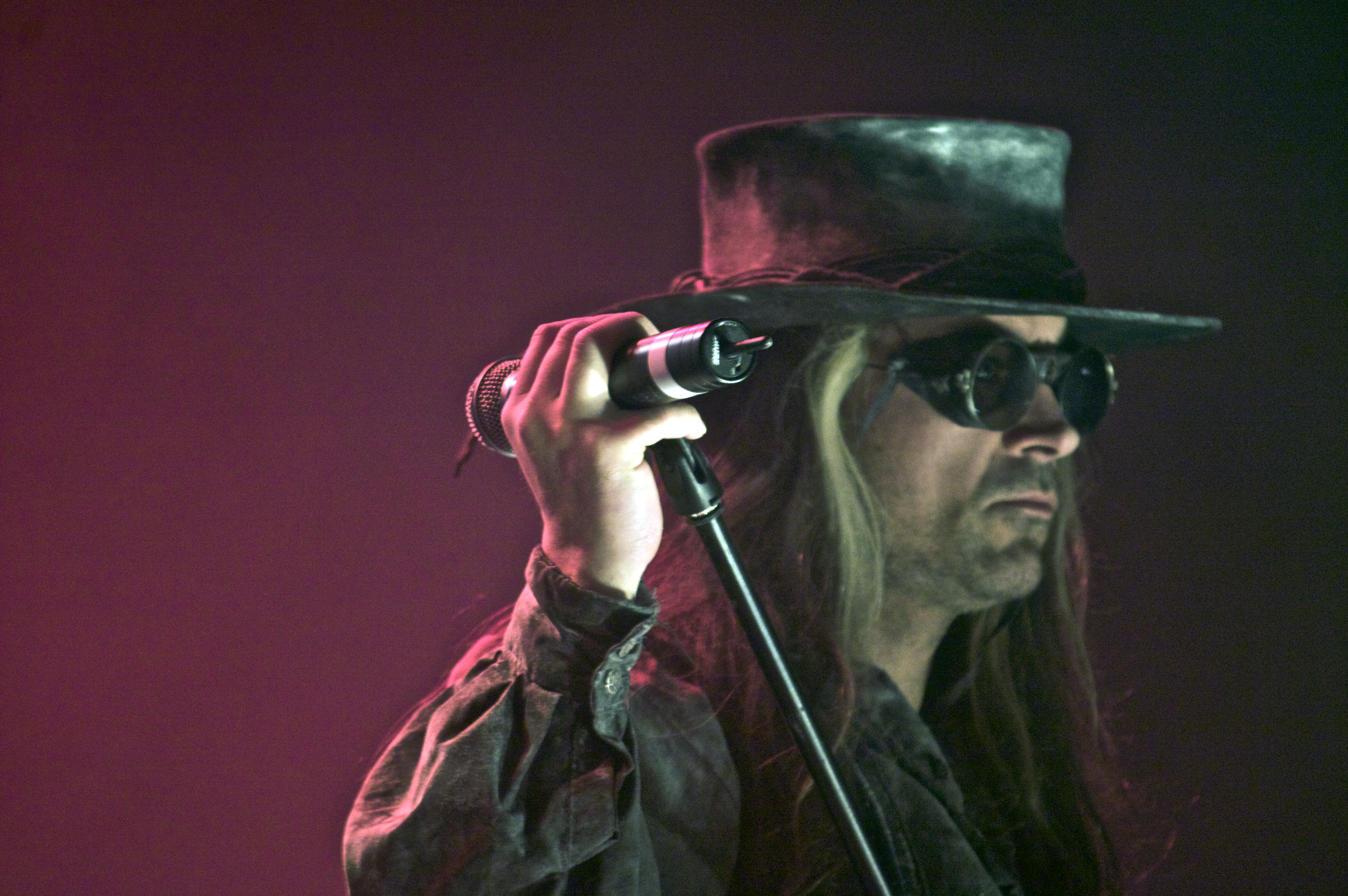 Carl McCoy, lead singer of Fields of the Nephilim. Photograph taken at Agra Hall, Leipzig, Germany at WGT 2008.